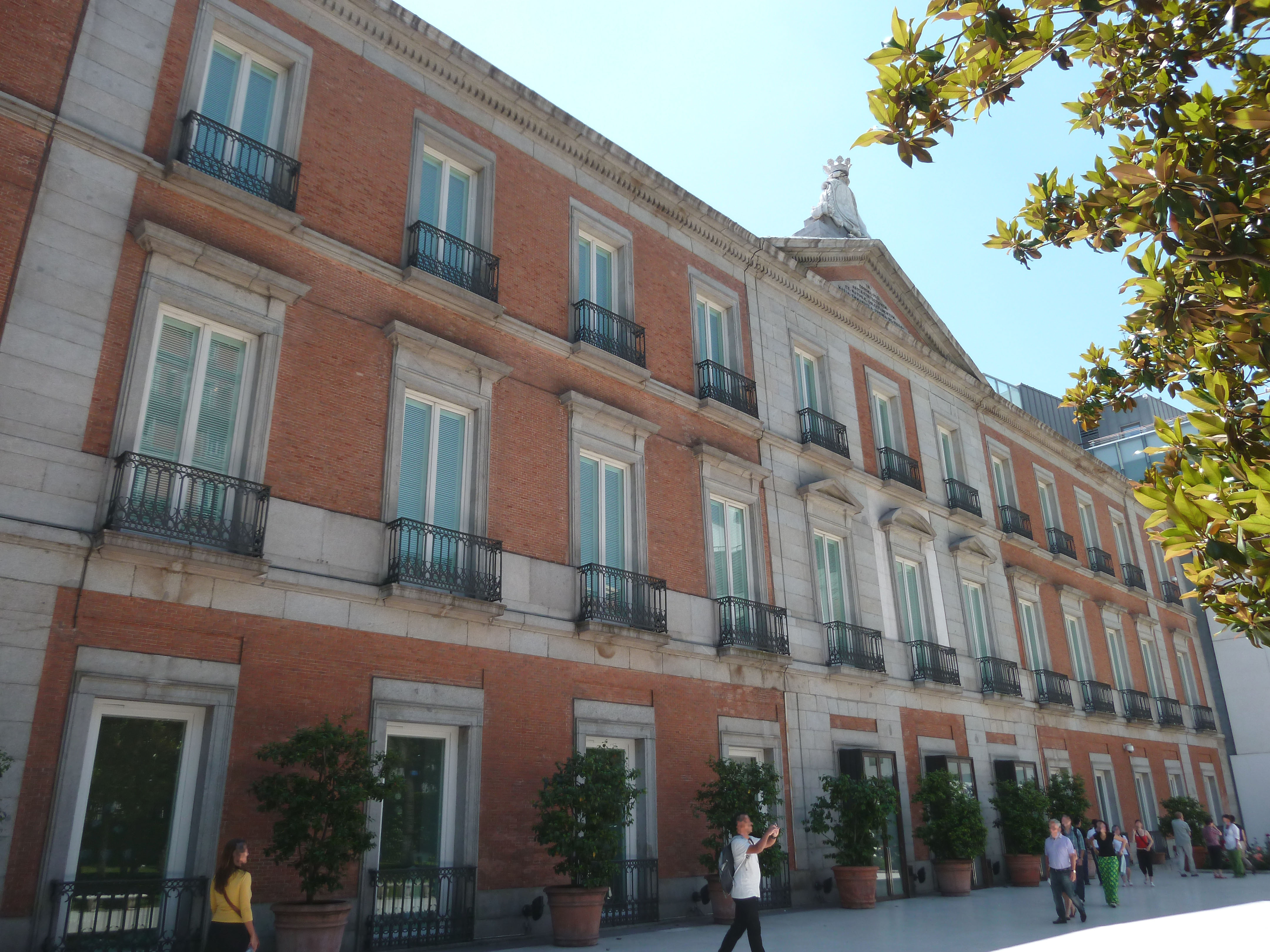 North façade of Villahermosa Palace (Thyssen-Bornemisza Museum) in Madrid (Spain).